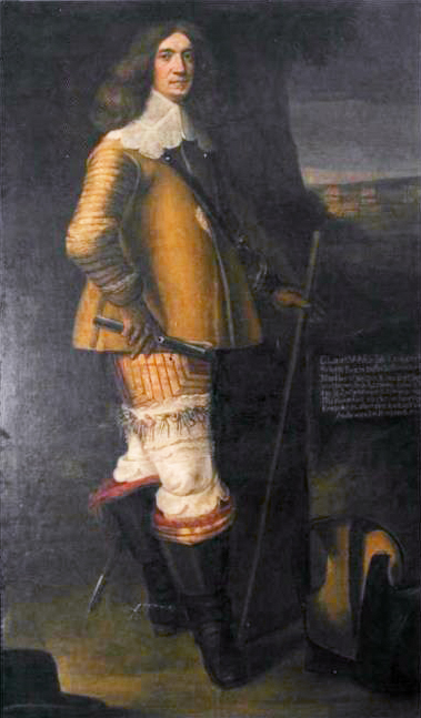 Claus Ahlefeldt (1614-1674) oil on canvas 1640 - 1650